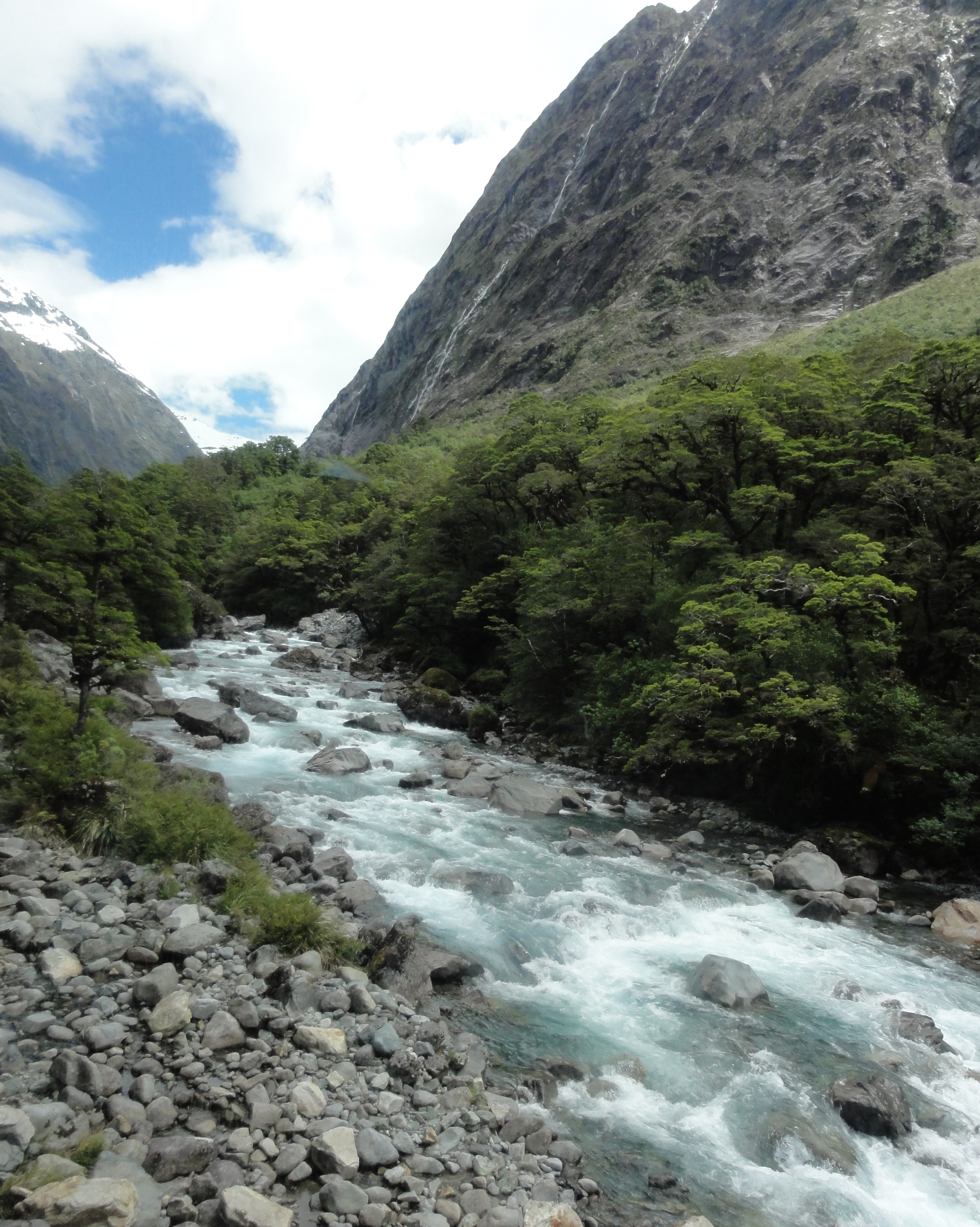 Eglinton River, Southland, New Zealand as seen from State Highway 94, south from Lake Gunn